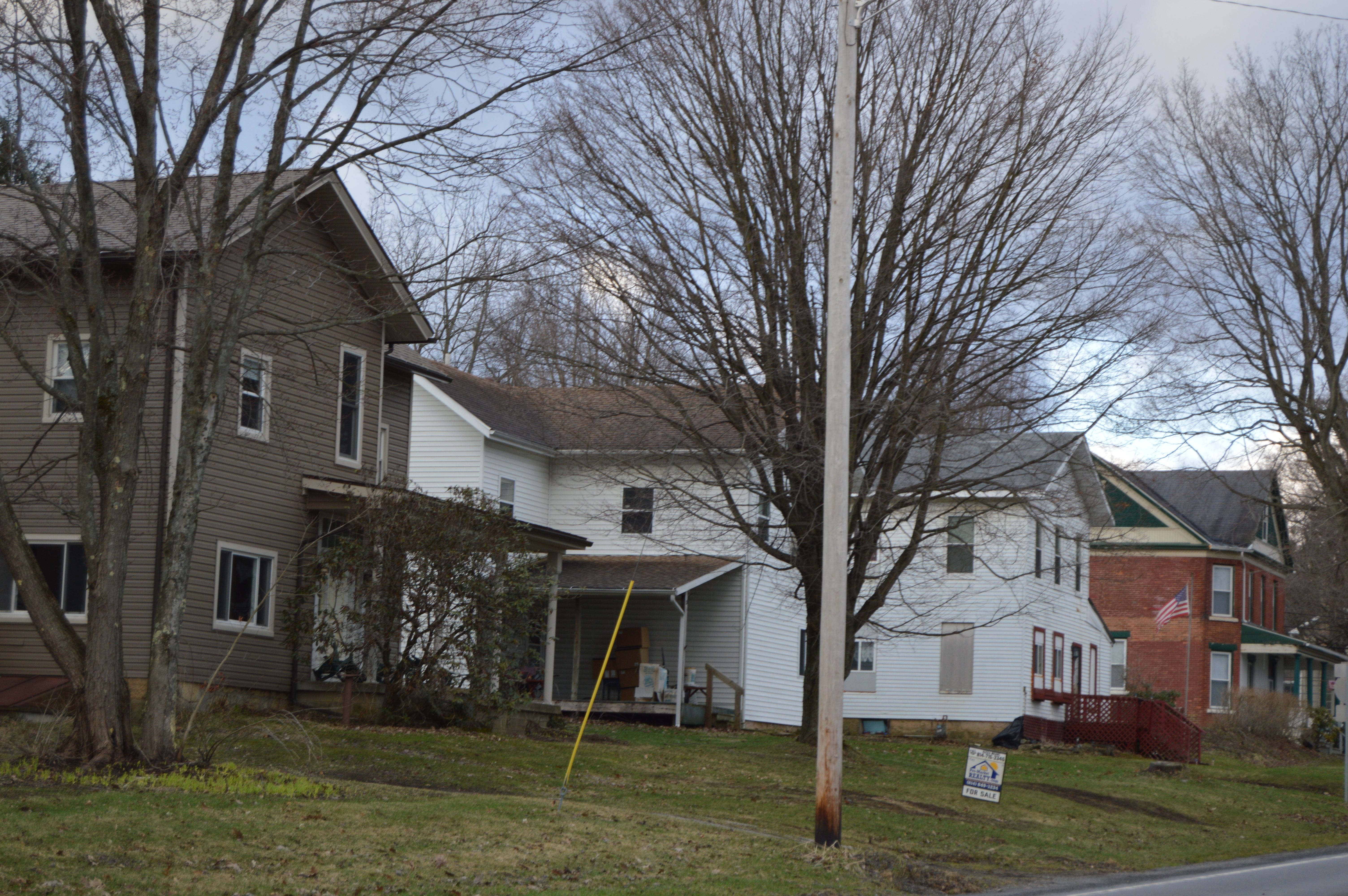 Houses on the southern side of Main Street (U.S. Route 322) east of the Church Street intersection in Corsica, Pennsylvania, United States.